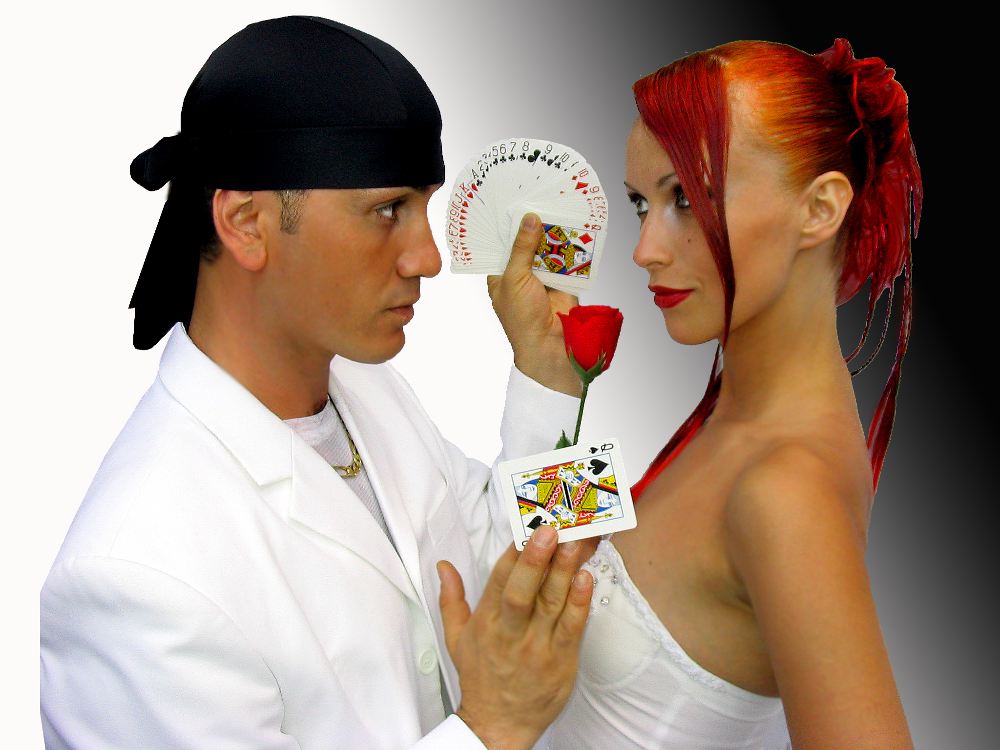 Sos Victoria Petrosyan Quick Change Magicians - World Best Quick Change Artists